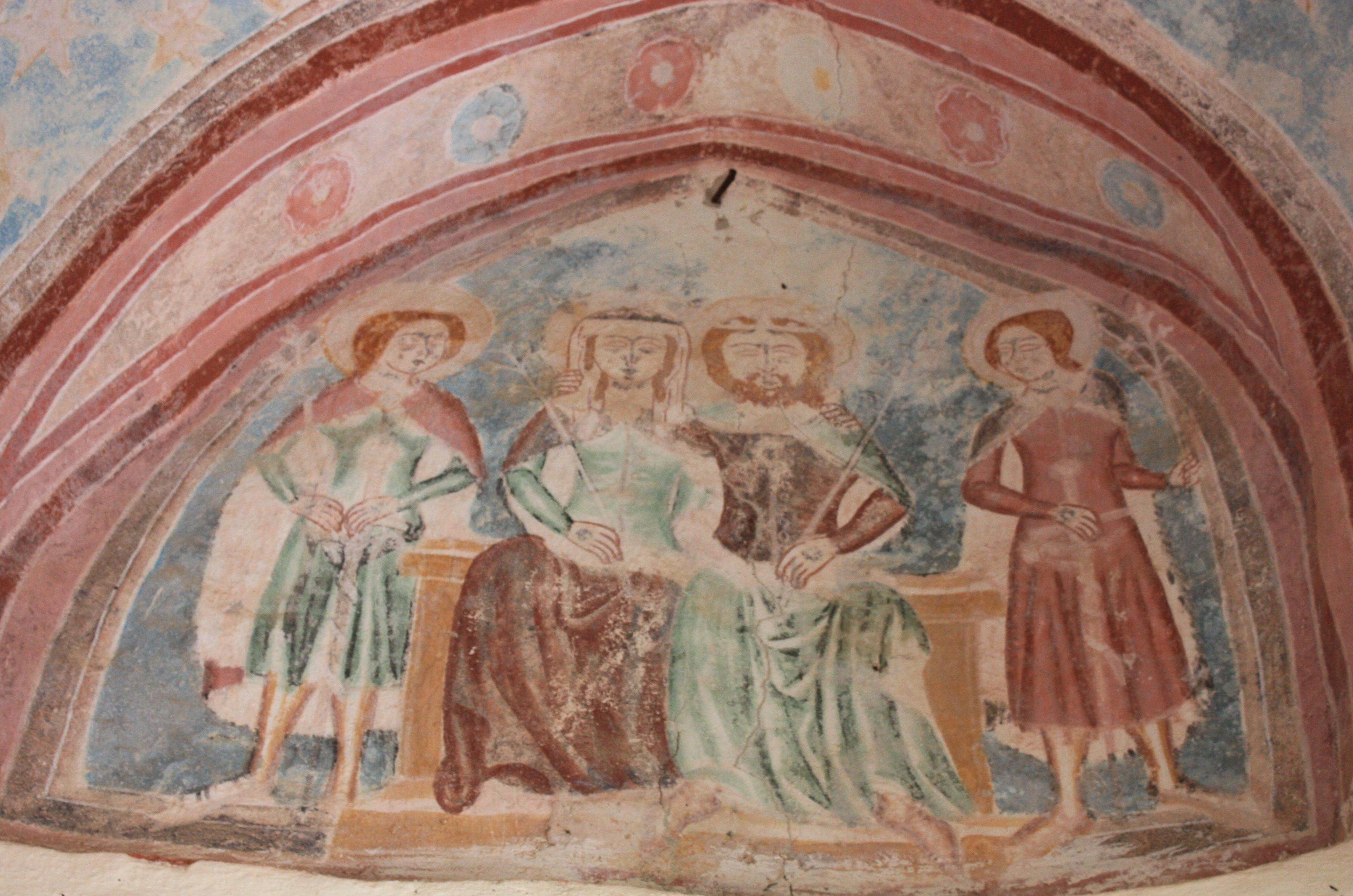 Fresco in the Charnel house of the parish church Saint Martin in Untergreutschach in the community of Griffen